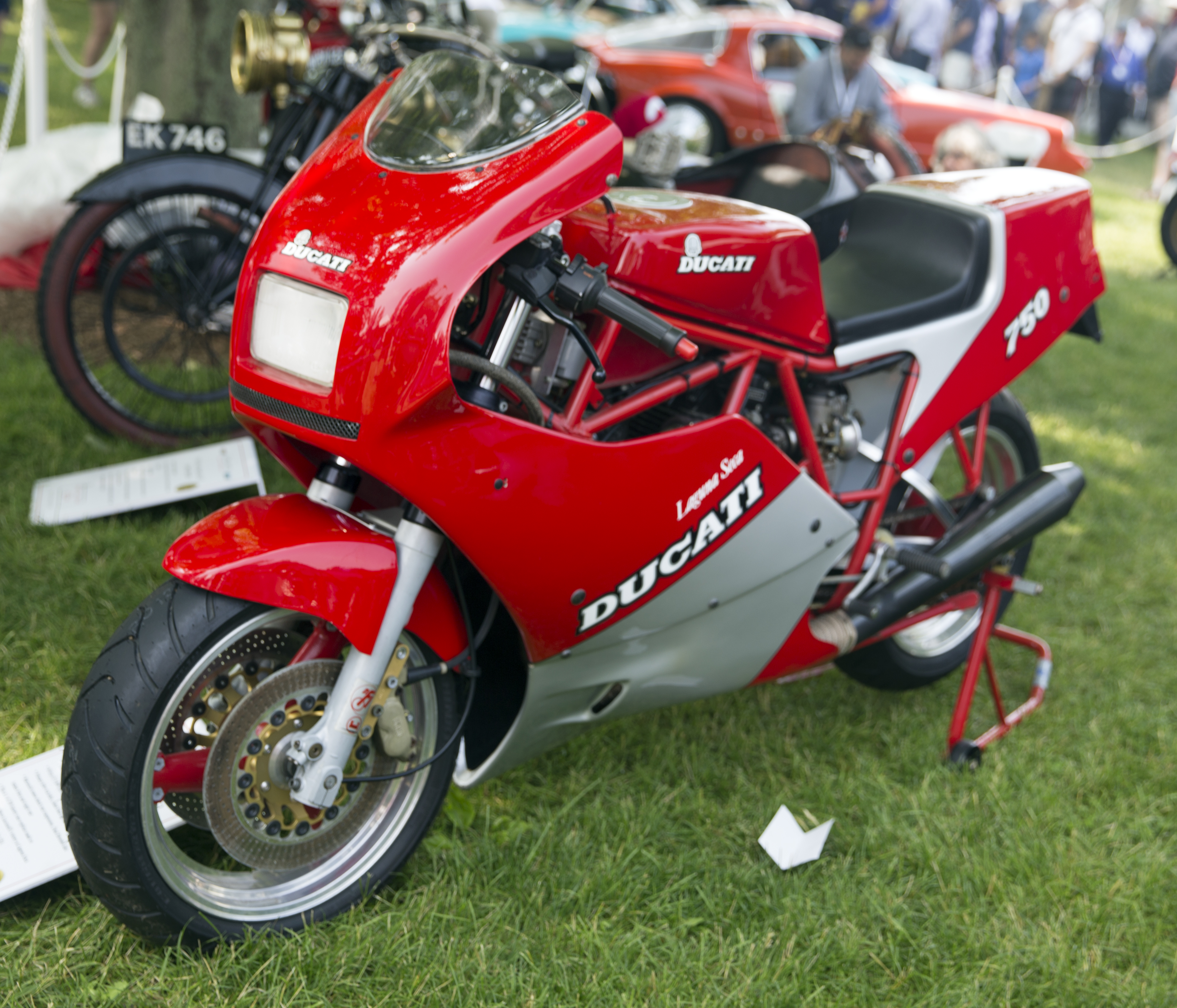 1987 Ducati F1 Laguna Seca at the 2019 Greenwich Concours d'Elegance. A factory replica celebrating Lucchinelli's victory at Laguna Seca; 200 were made of which 50 were shipped to the United States. 80hp, 748cc twin.